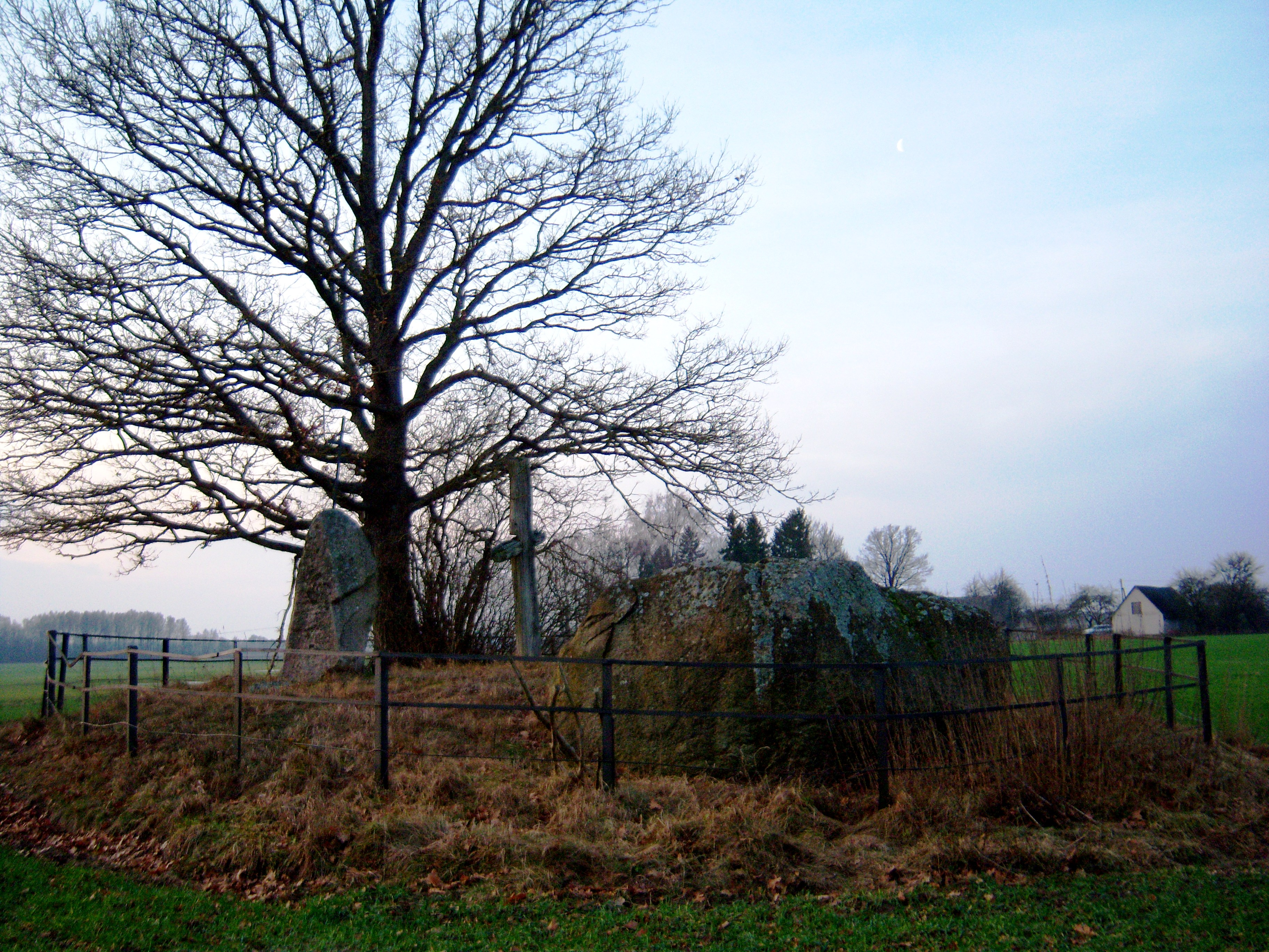 Pakalniškiai stone, Raseiniai District, Lithuania